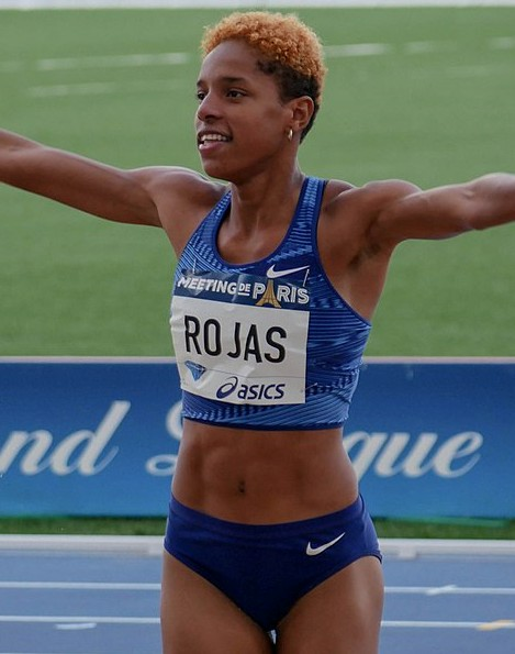 Yulimar Rojas, 2019.